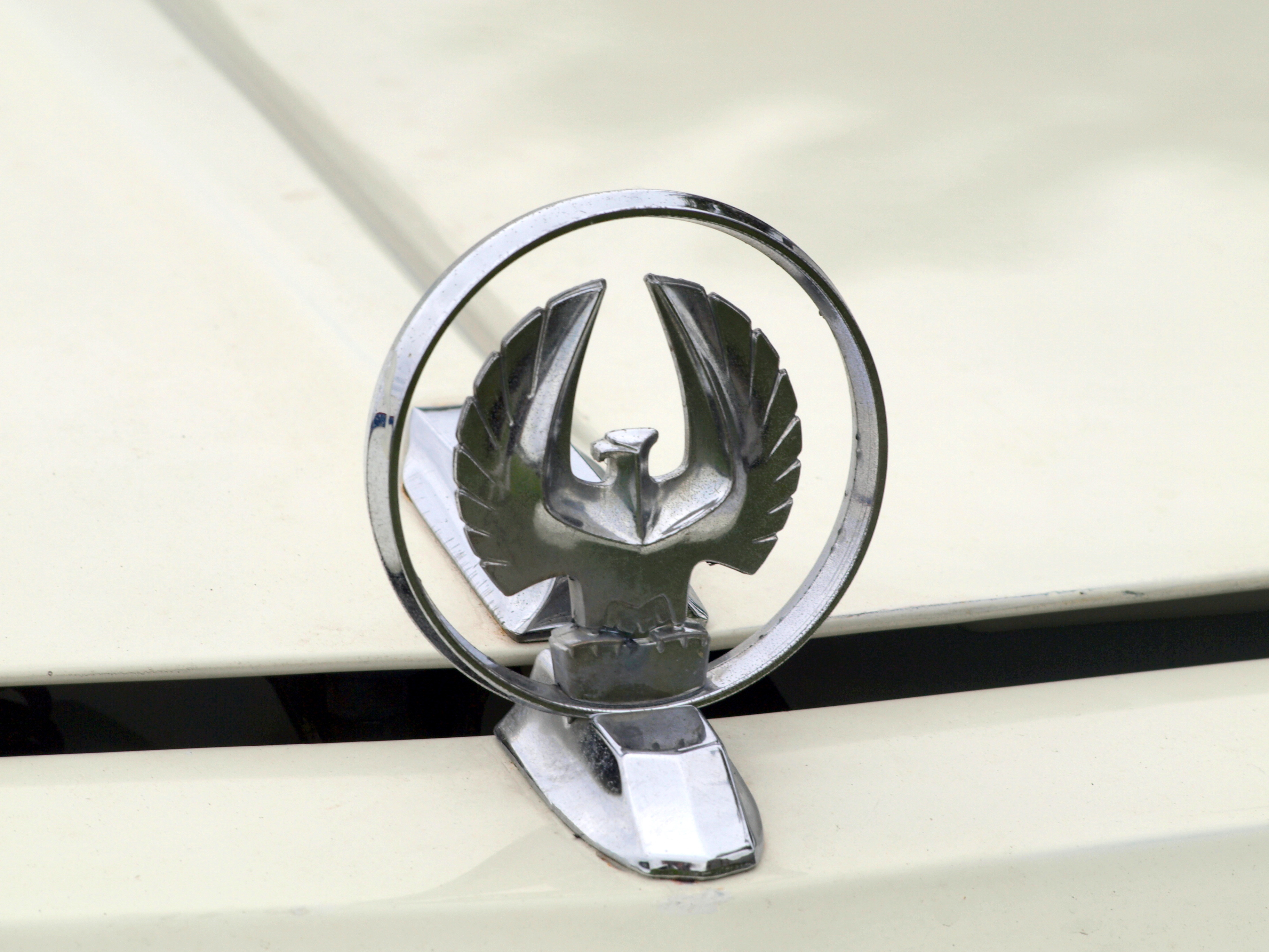 Photographed at the 2010 Autotron Classic car meeting, Rosmalen, The Netherlands. OLYMPUS DIGITAL CAMERA